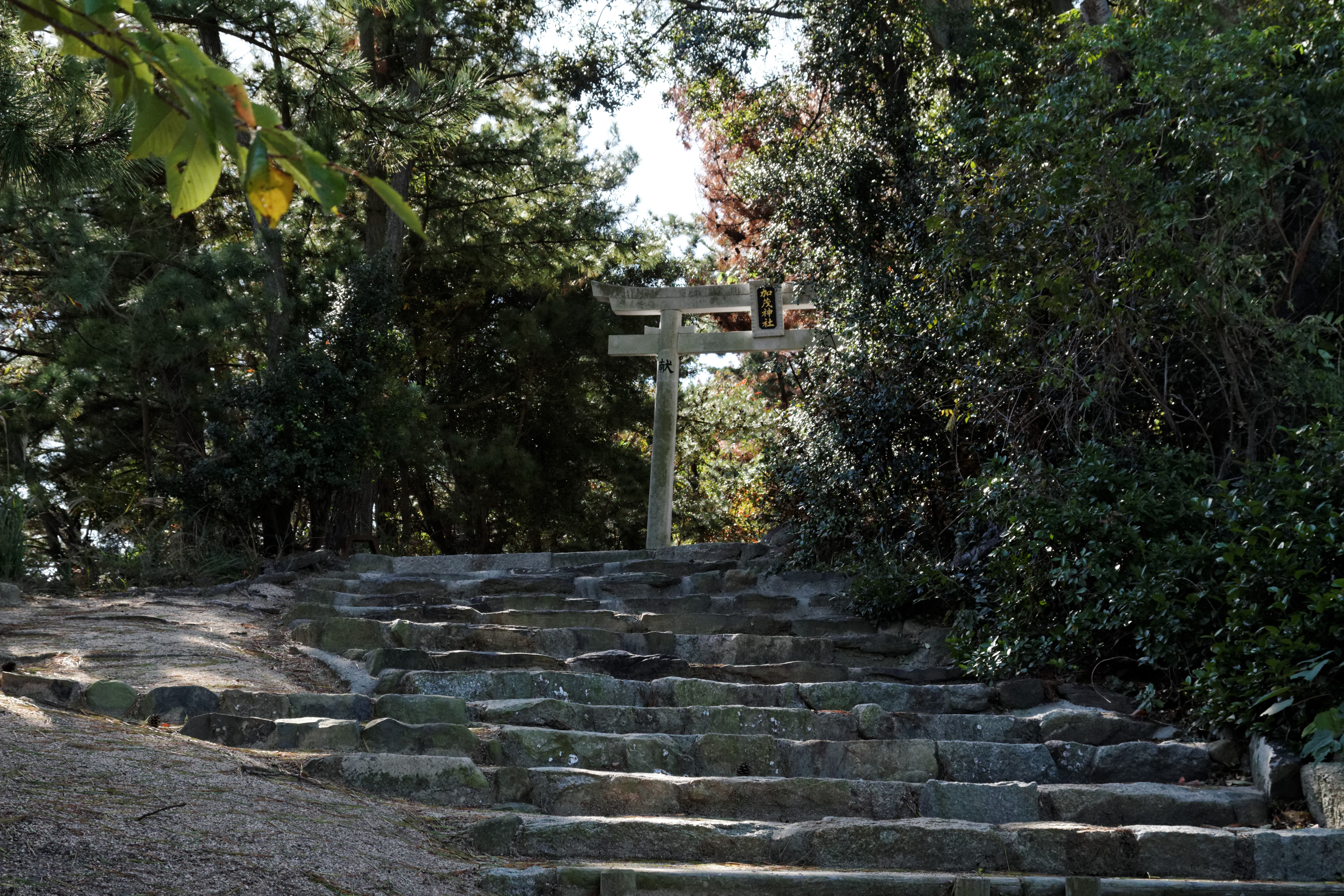 Ogijima - 男木島